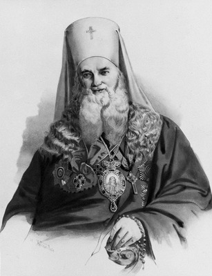 Metropolitan Antony (Rafalsky)